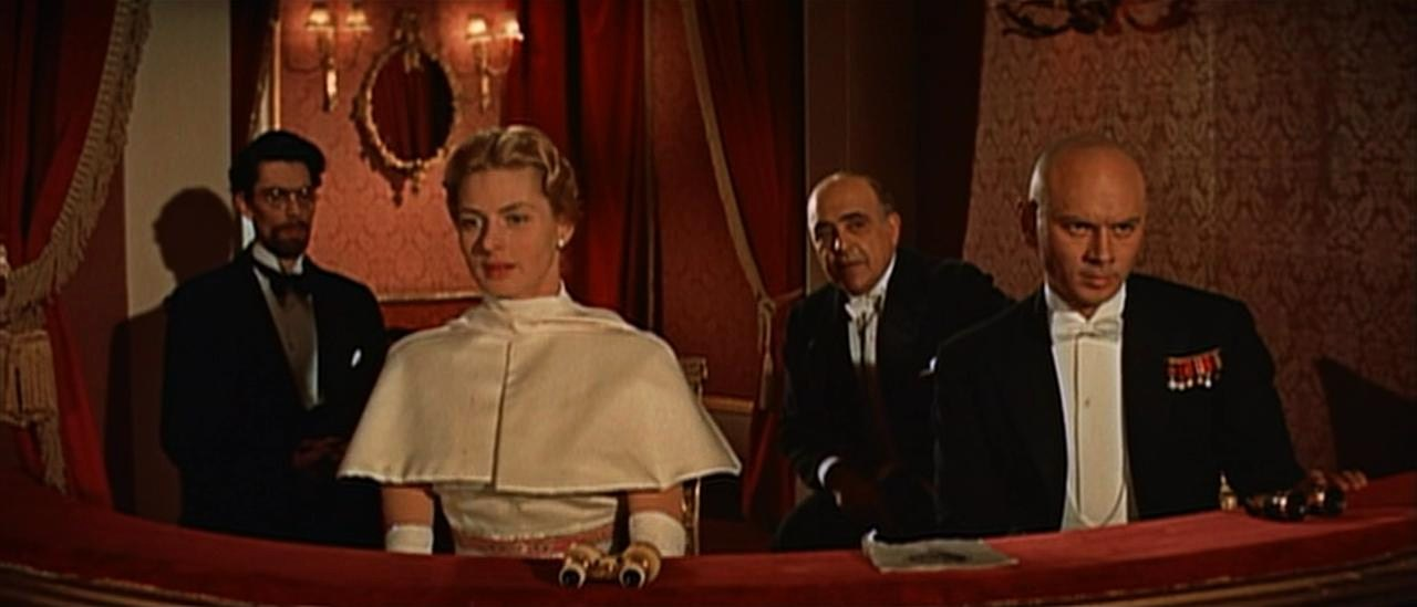 L. to R. : Sacha Pitoëff, Ingrid Bergman, Akim Tamiroff & Yul Brynner in Anastasia - trailer (cropped screenshot)